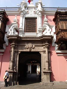 Palais Torre Tagle (Lima)